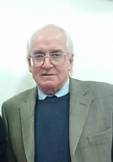 Doug Scott